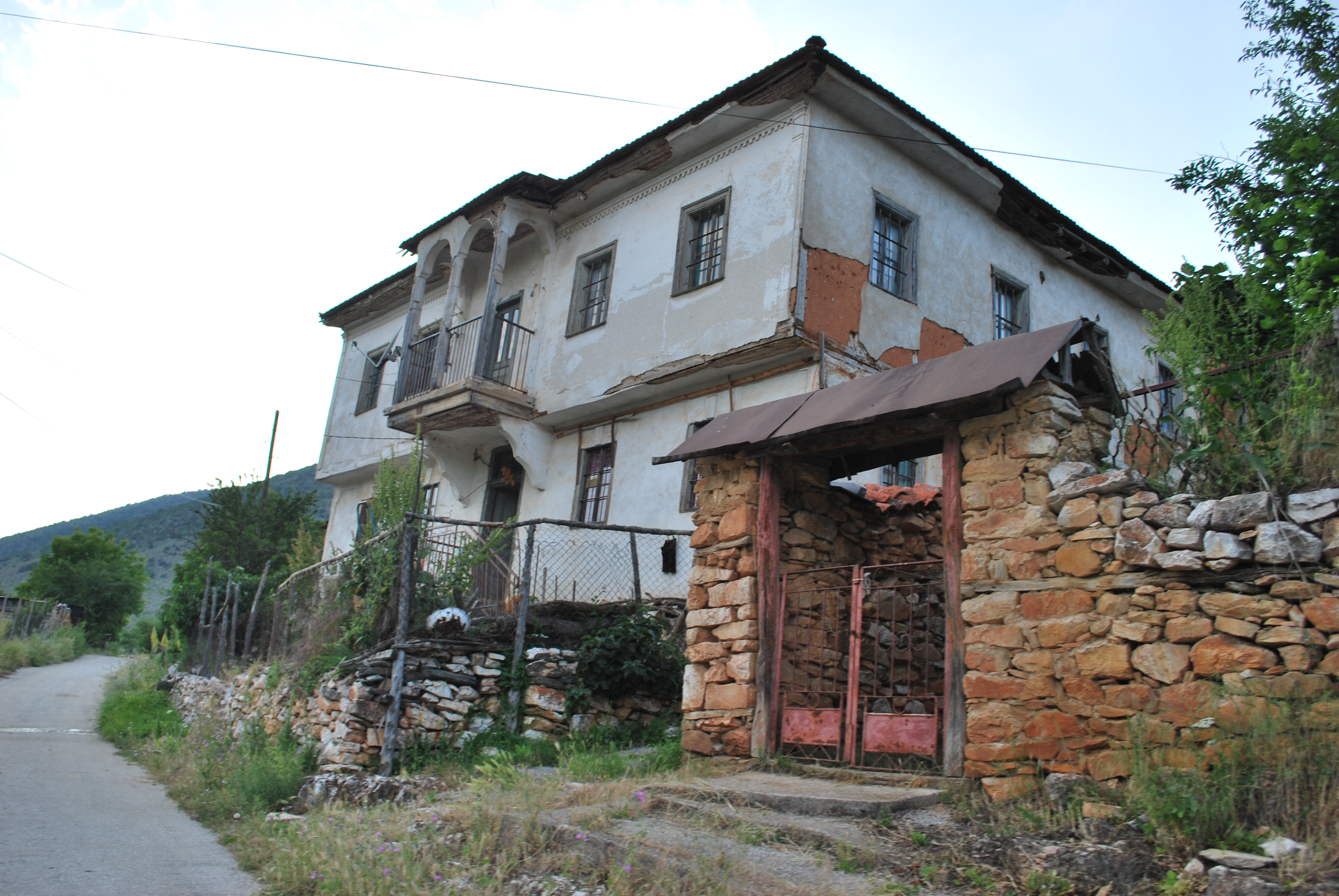 Village of Cer, Macedonia